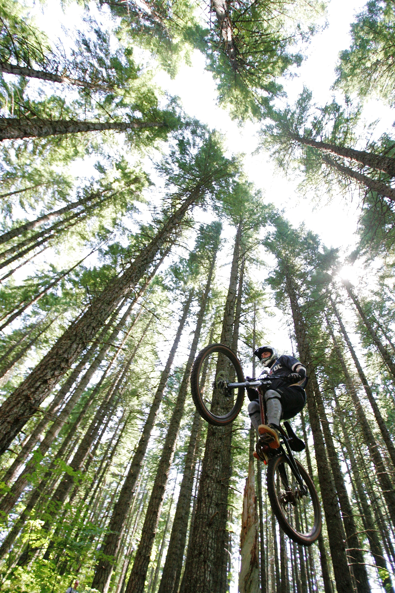 Mountain biker gets air in Mount Hood National Forest, Oregon, USA